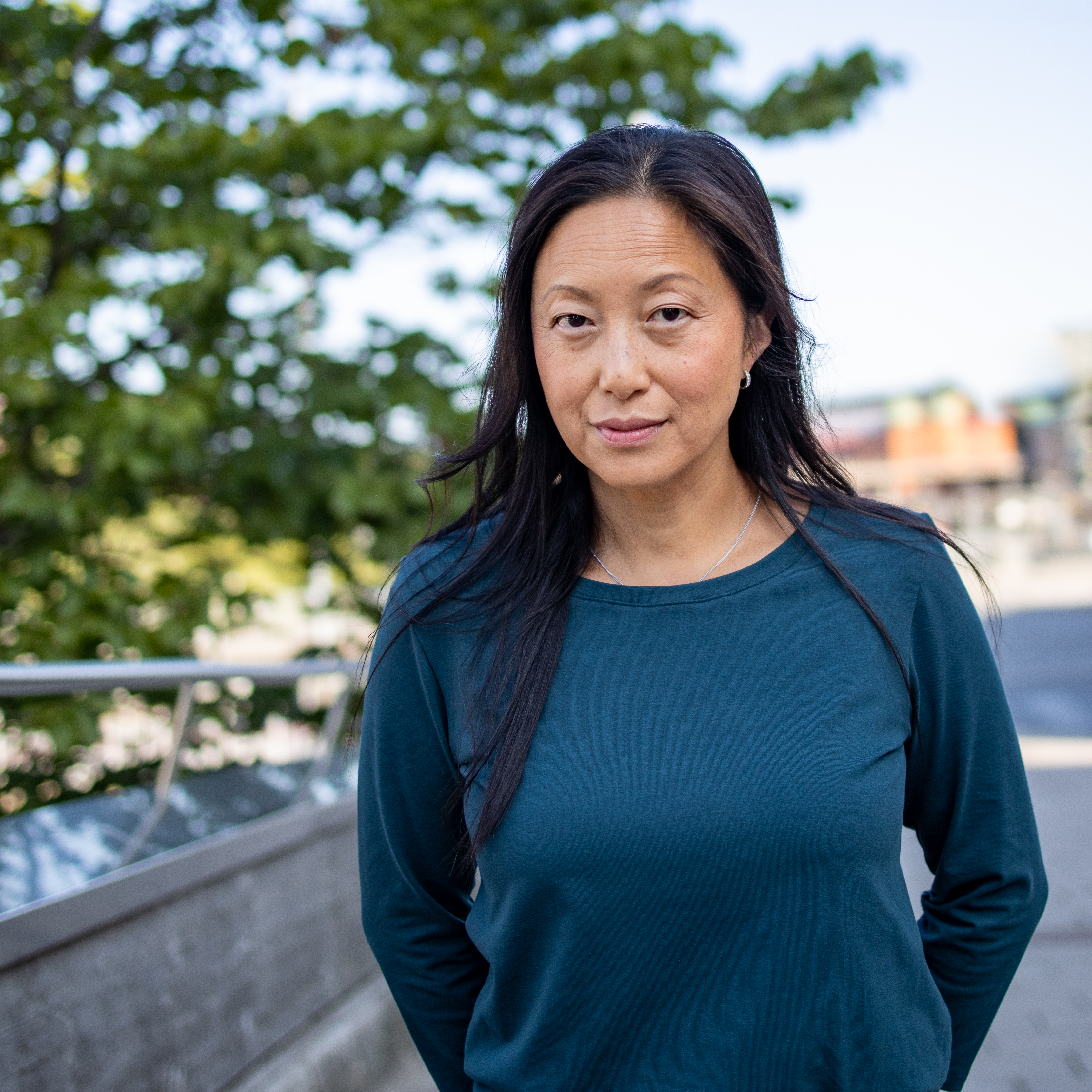 Photographed in Kungsholmen, Stockholm, August 2019